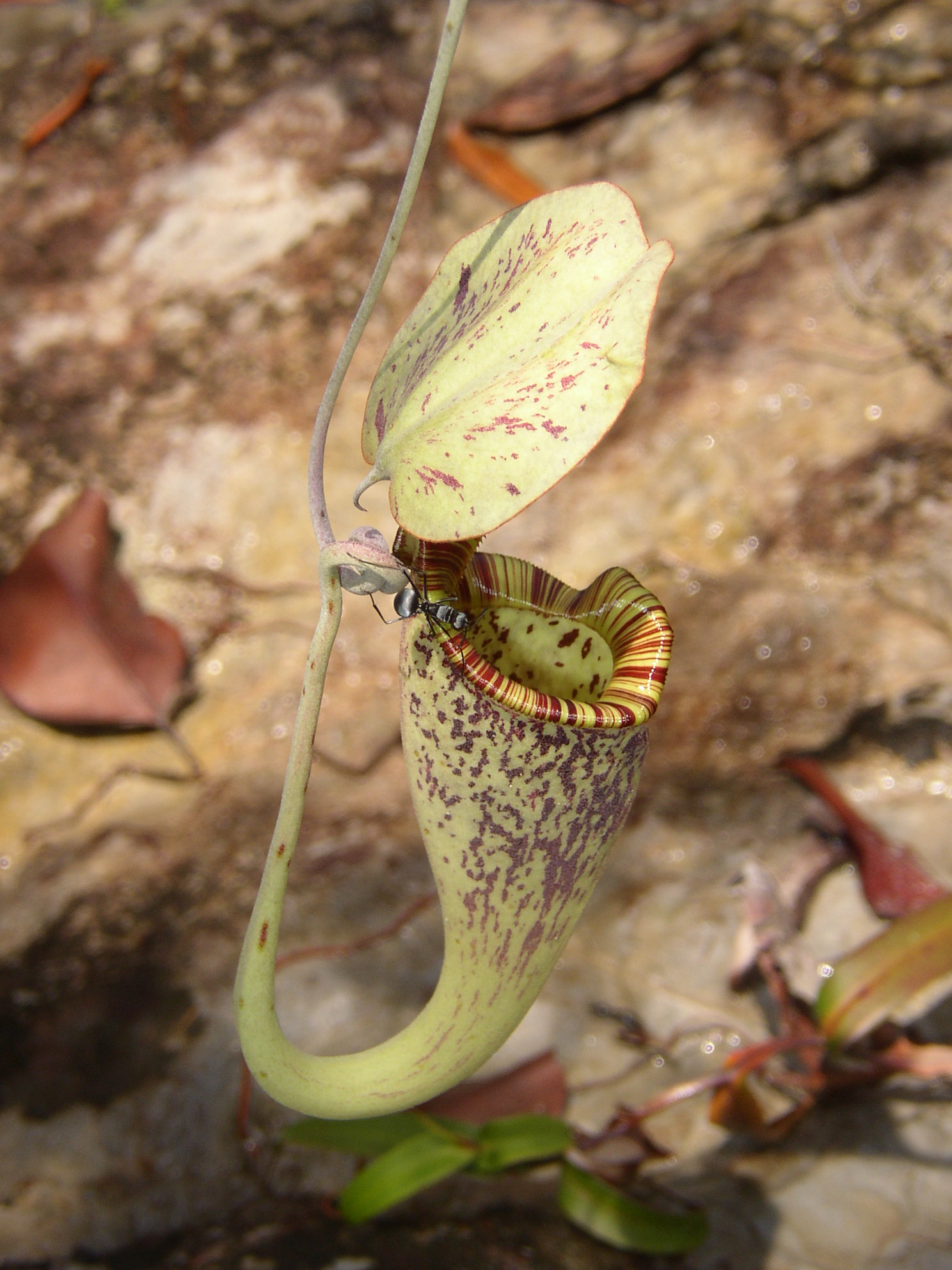 Ant drinking nectar from the peristome of an upper pitcher of Nepenthes rafflesianaIt is the biggest carnivorous plant (Nepenthaceae). Bako National Park, Sarawak, Borneo.